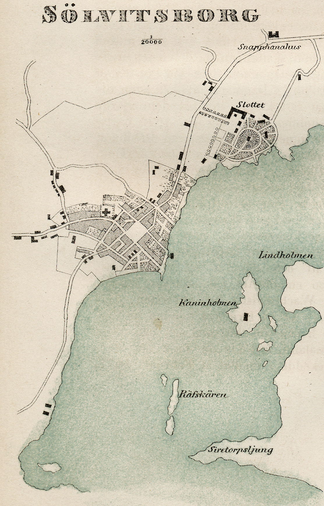 Map from about 1850 of the town of Solvesborg in Sweden.